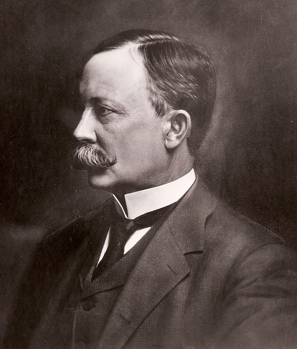 Warren Seymour Johnson - Portrait courtesy of Johnson Controls corporate archives